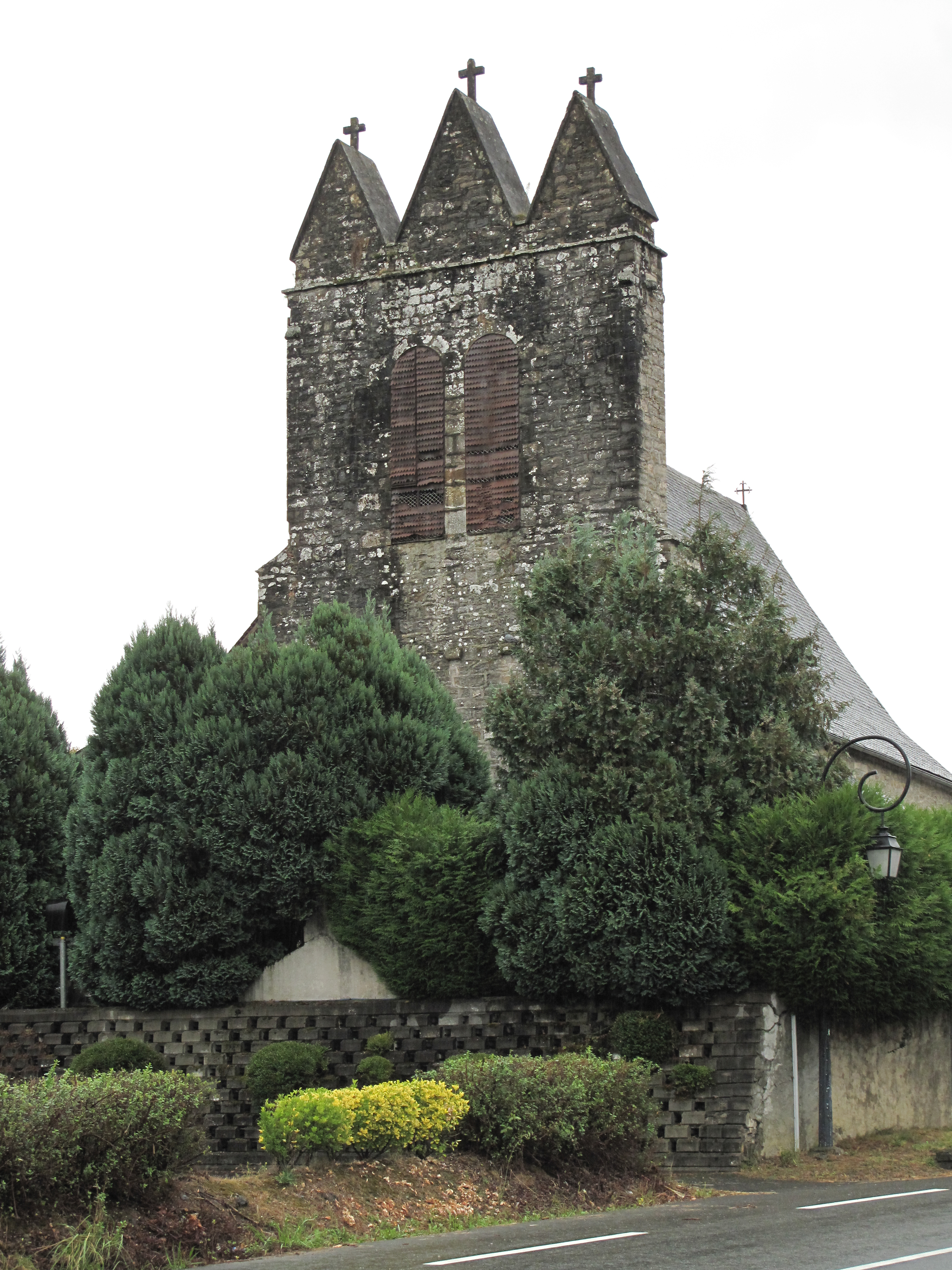 Trinitarian steeple of the church of Charritte, Pyrénées-Atlantiques, France